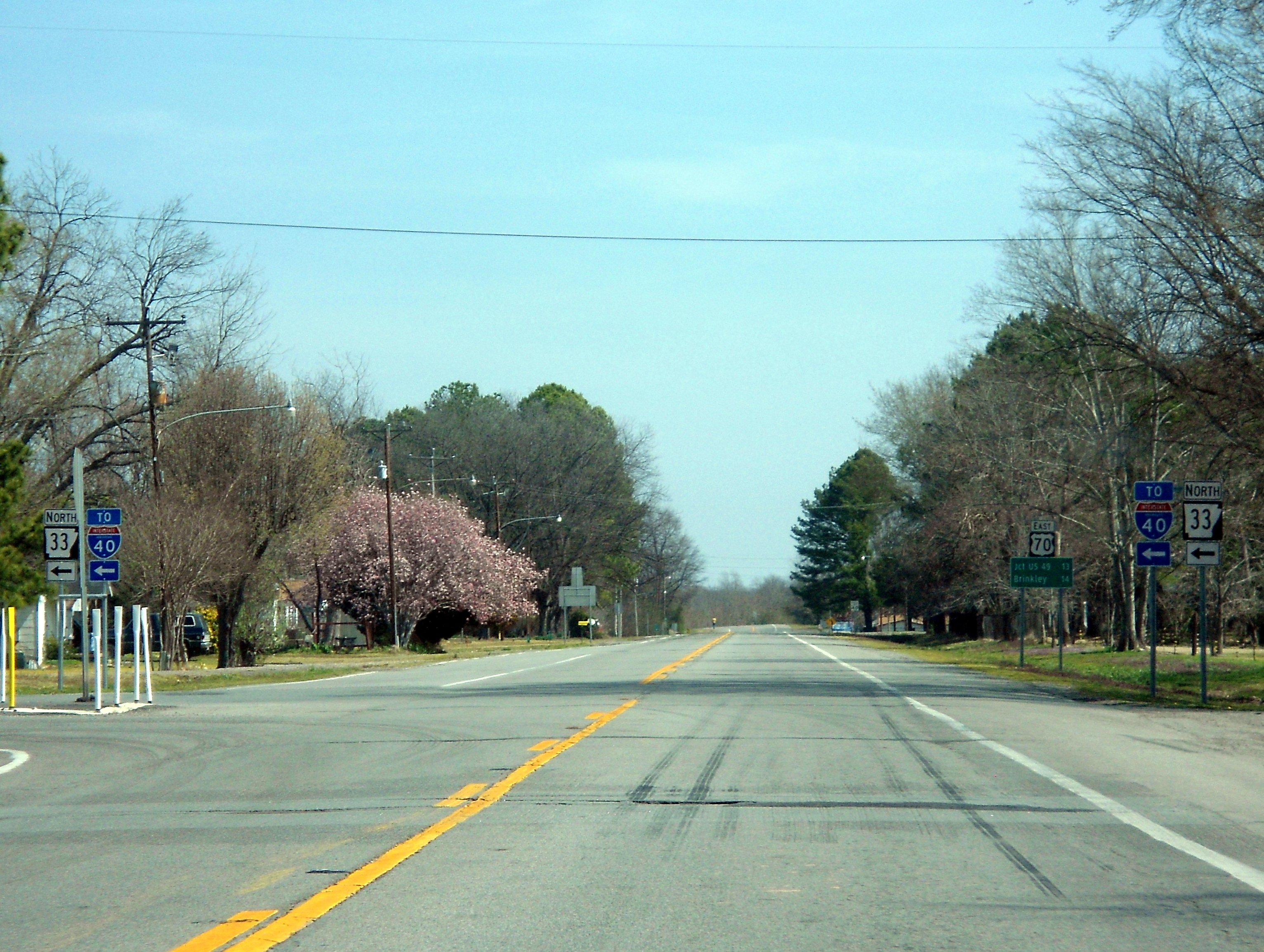 Highway 33 turns north off US 70 east of DeValls Bluff, AR